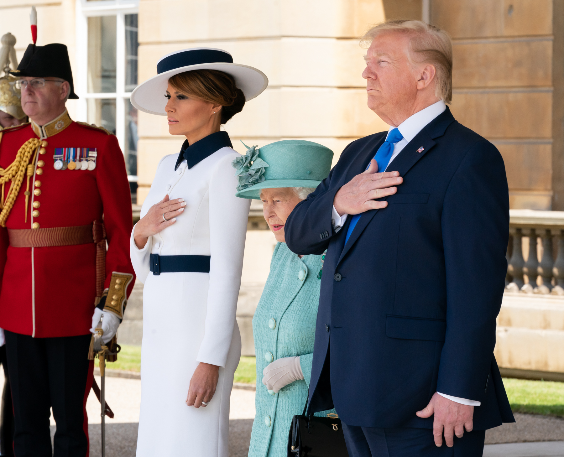 President Donald J. Trump and First Lady Melania Trump, joined by Britain’s Queen Elizabeth II, place their hands on their heart for the national anthem during a welcome ceremony at Buckingham Palace Monday, June 3, 2019, in London. (Official White House Photo by Andrea Hanks)